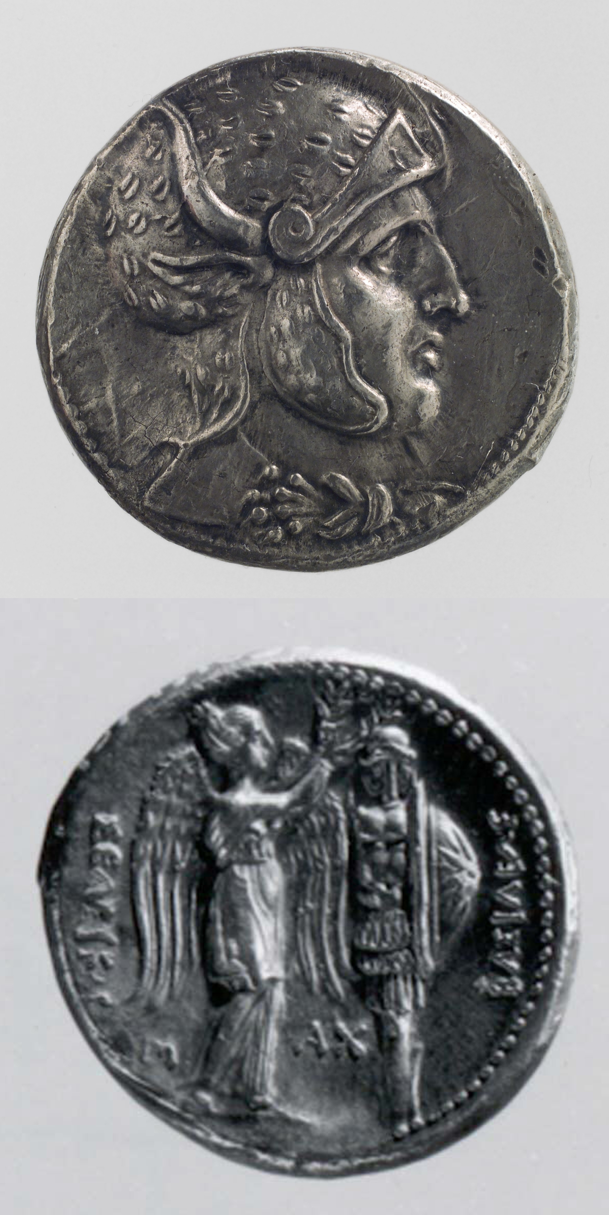 Seleucos coin MET